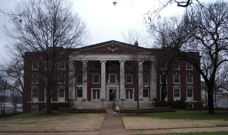 Photo taken by Reid Sullivan 1/23/06.